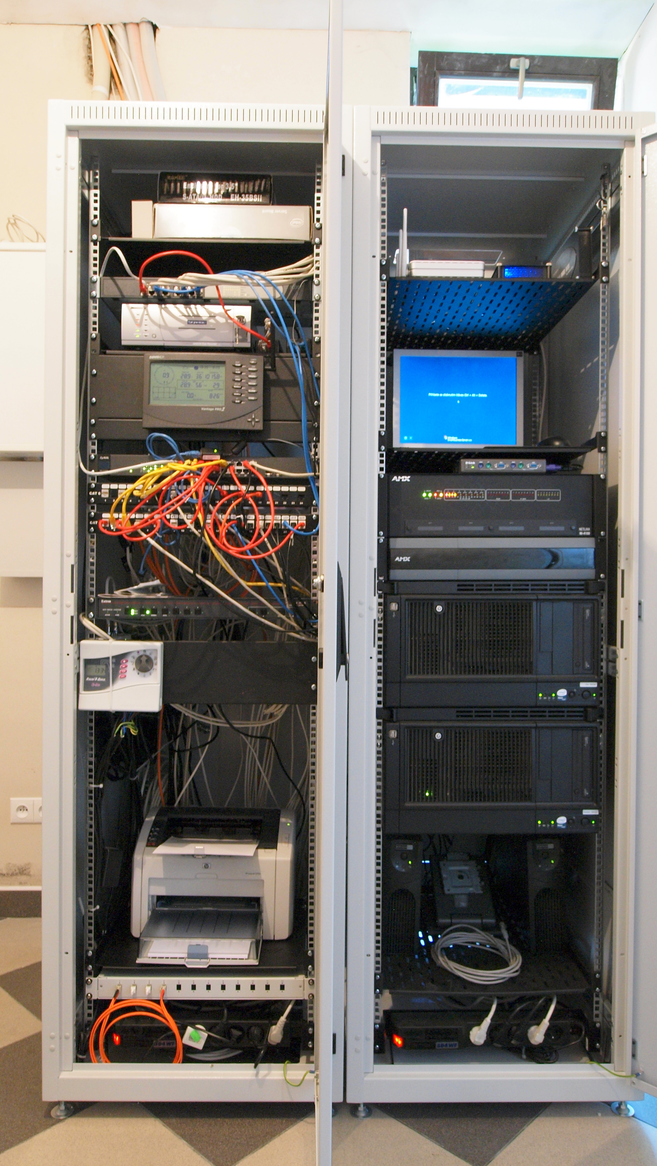 Server rack for an intelligent building.